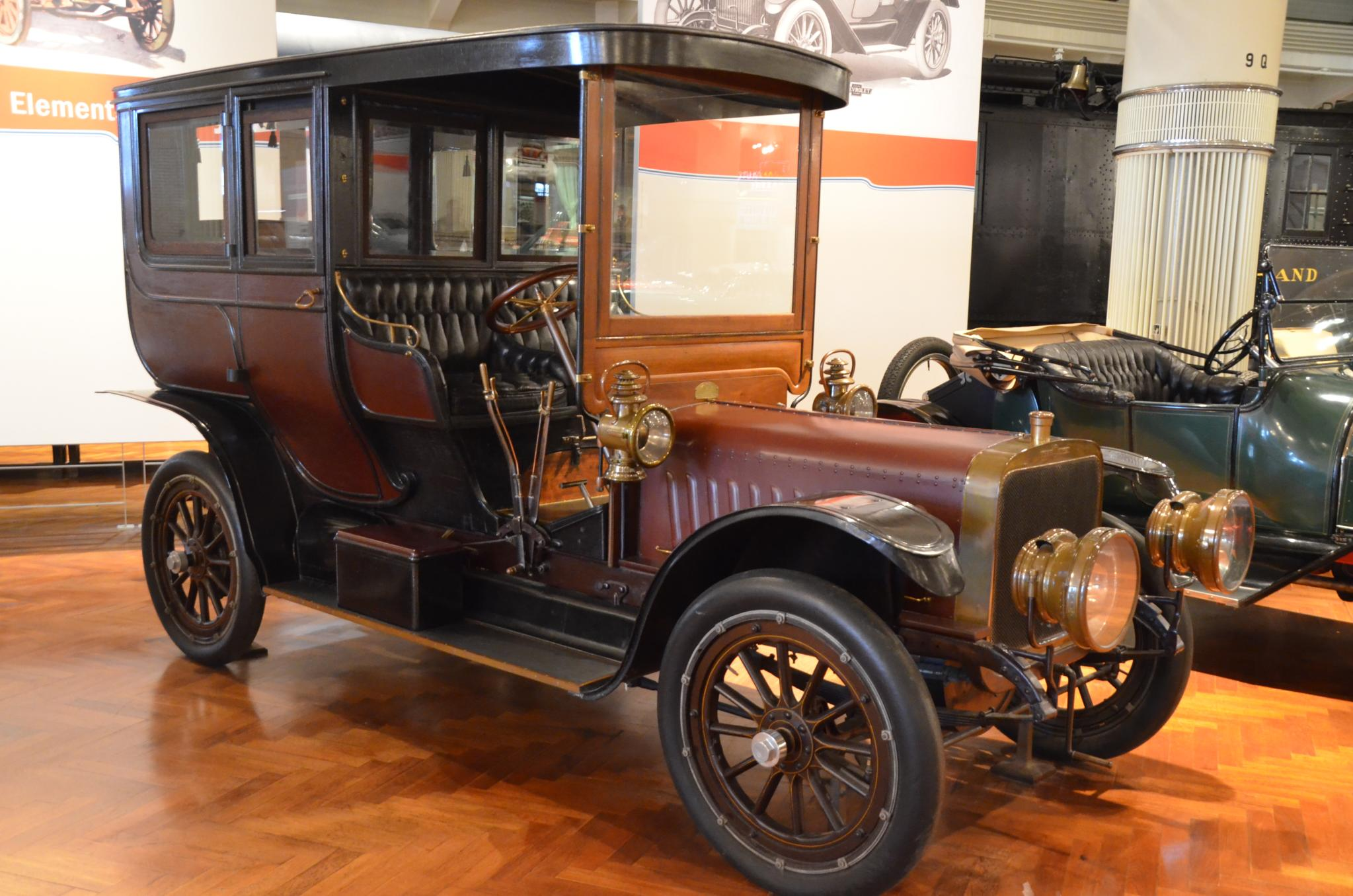 For about 6 weeks in January and February, the Henry Ford museum in Dearborn, Michigan opens the hoods on about 50 of it's iconic vehicles. Here is a photo of one of the vehicles on display.